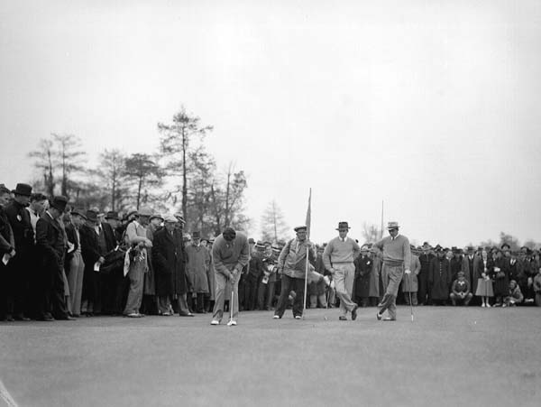 New Orleans City Park, 1938. St. John's Golf Club, Crescent City Golf Tournament, sponsored by Mayor Maestri. Exterior. 2/15/1938